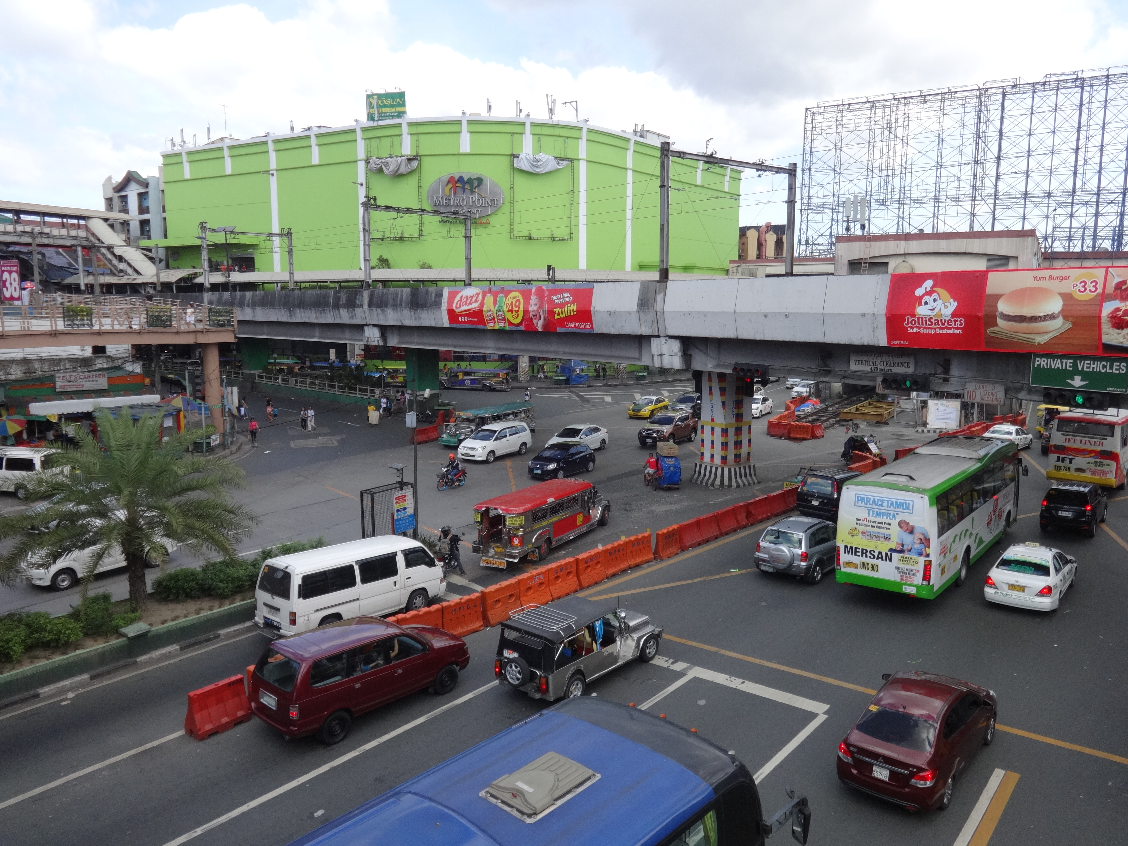 Pasay Rotonda at the intersection of EDSA and Taft Avenue in Pasay City. It is also where the EDSA LRT-1 Station and Taft MRT-3 Station are located.